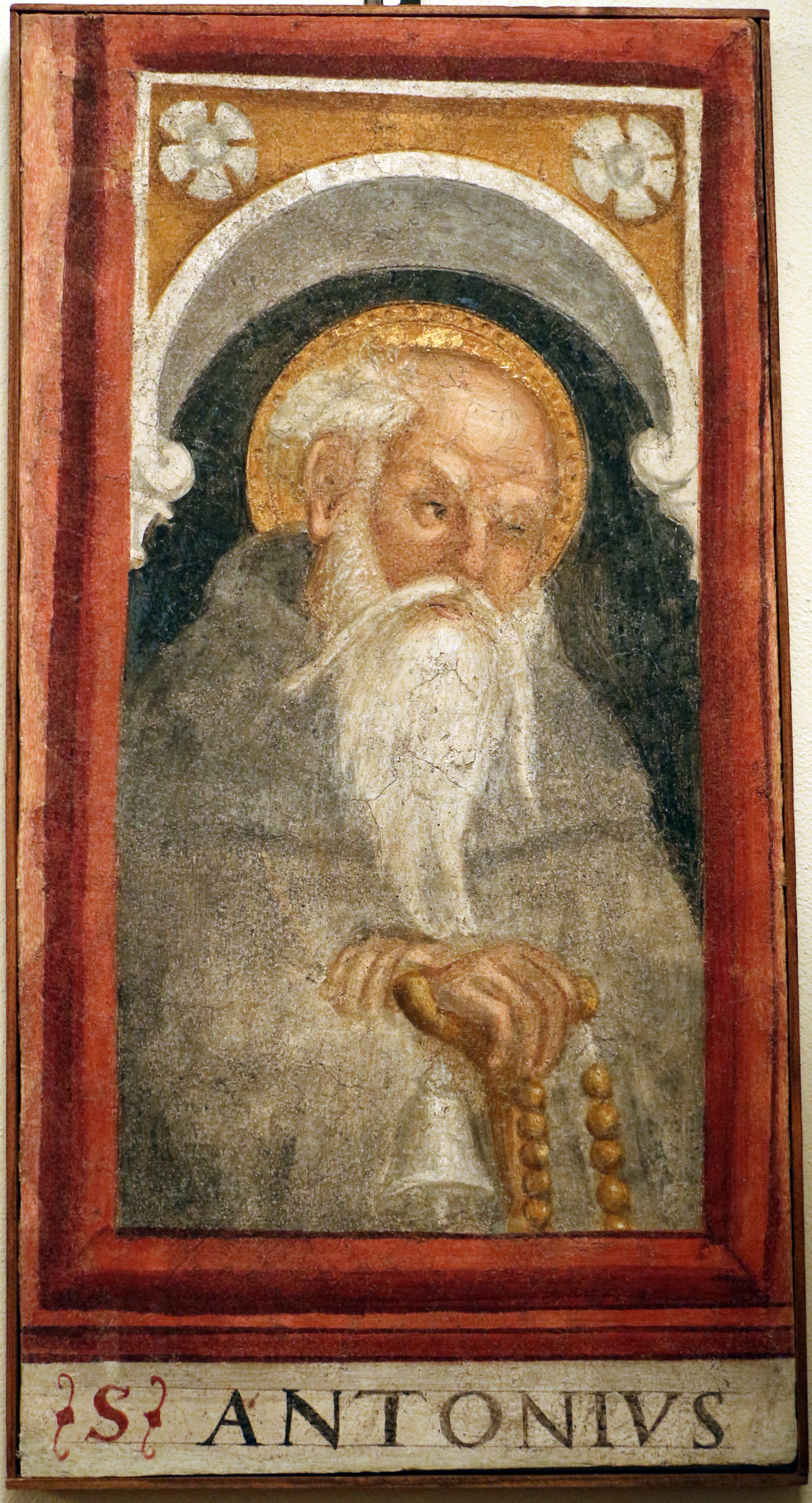 San Nicolò (Zanica) - Museum